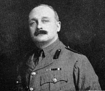 Portrait of Lieut.-Colonel W. G. Braithwaite, C.M.G., D.S.O (later brigadier general)